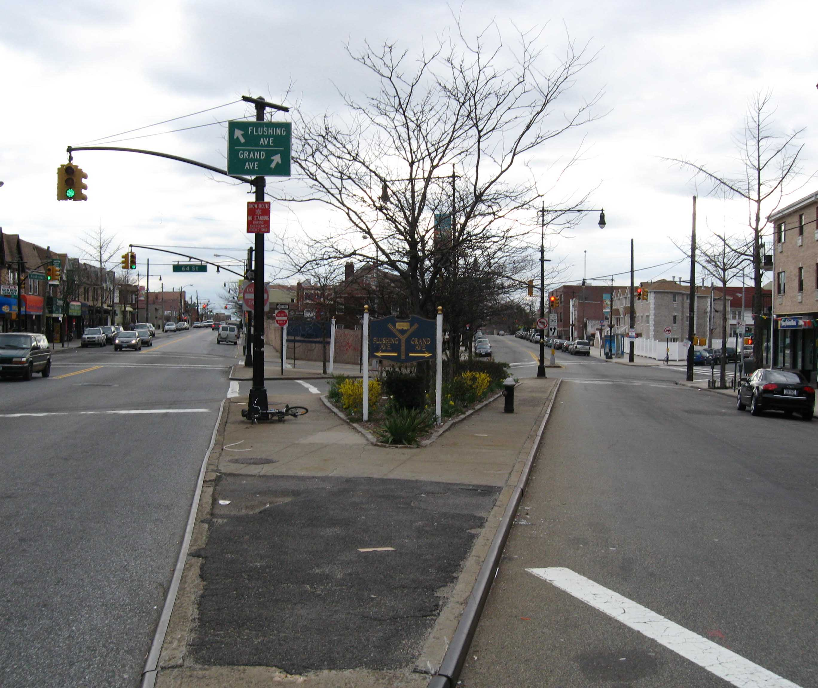 Looking southeast at the head of Flushing Avenue in Maspeth on a cloudy afternoon in early springtime.